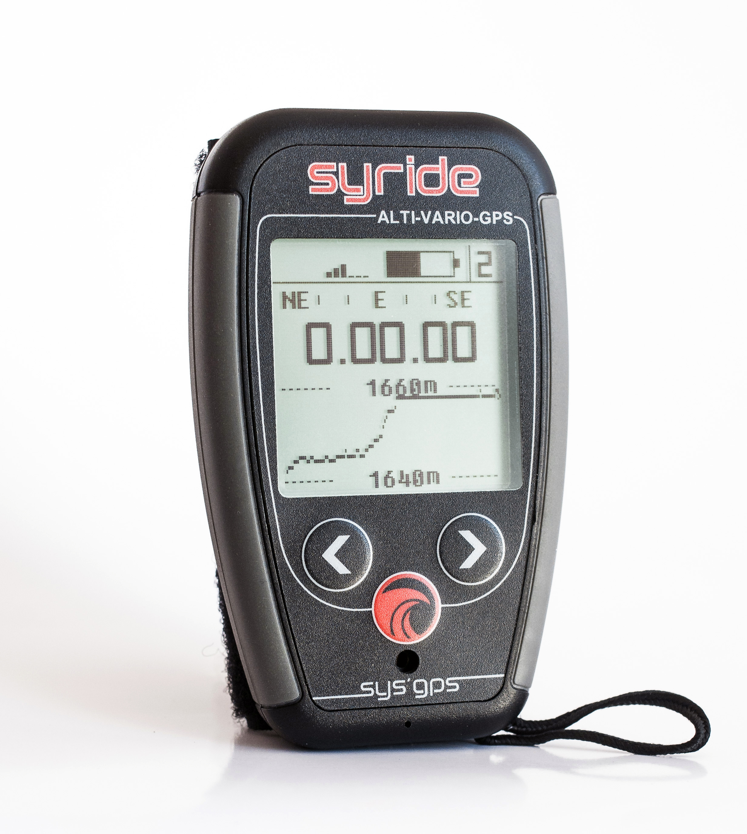 An Altimeter, Variometer with GPS, used by paragliders